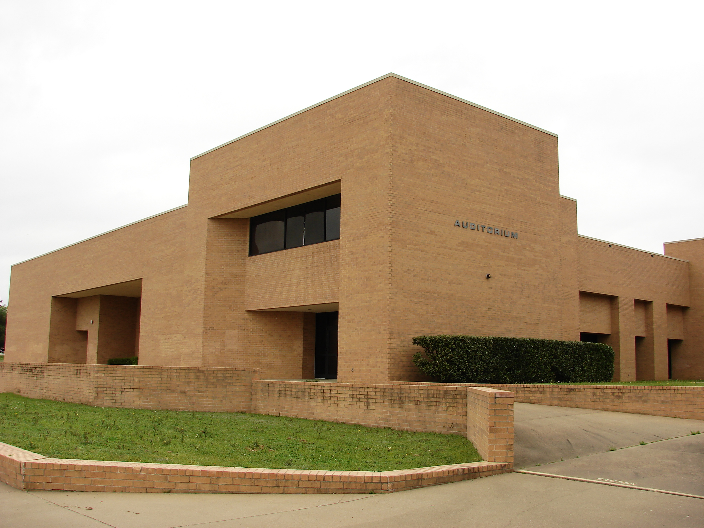 Workman Junior High School (previously James Bowie High School) in Arlington, Texas.